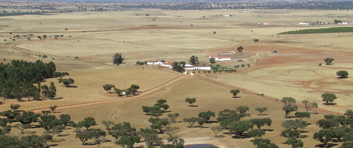 Campo Branco Panorama from Arcelis